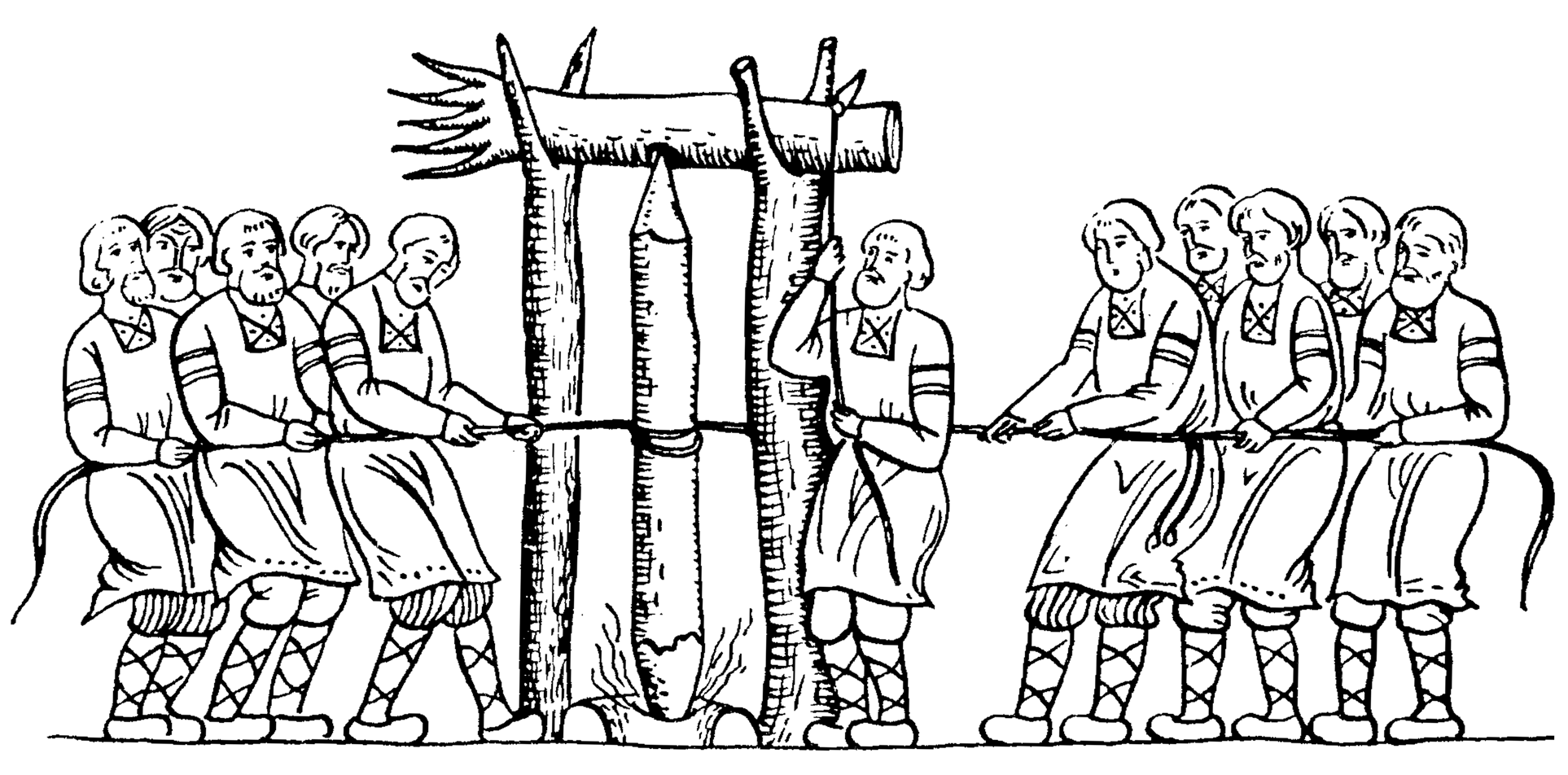 Obtaining the sacred "living" Fire. With reconstruction according to A.P. Lyavdansky, 1928